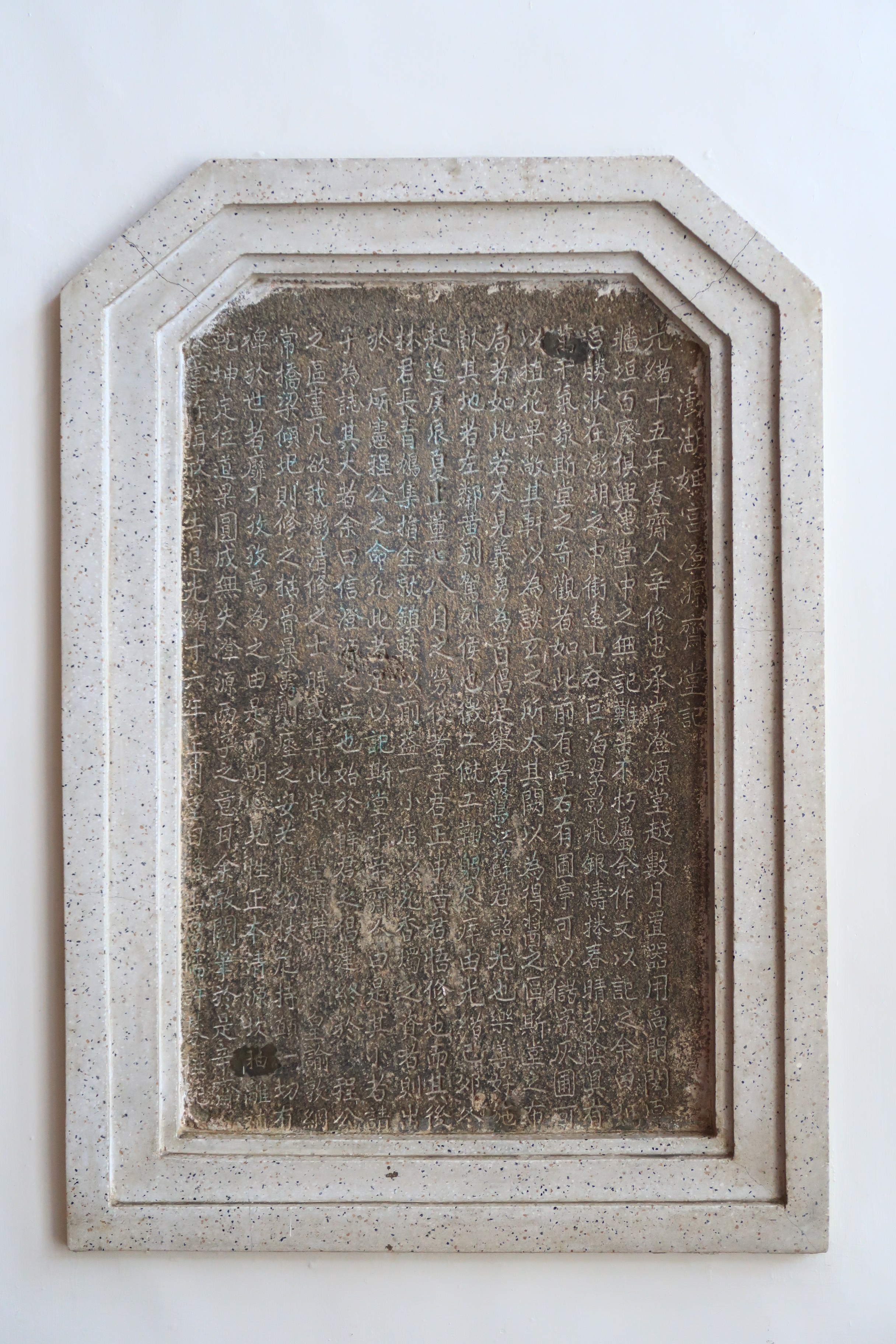 Cheng-Yuan Temple（澄源堂）at Penghu of Taiwan, founded in 1879. The Chinese religions of fasting, belonging to the Xiantiandao (先天道 "Way of Former Heaven") tradition.